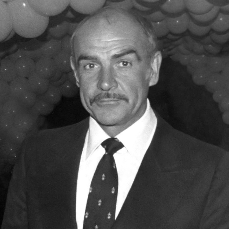 Sean Connery at the private party after the premiere of the movie Seems like old times. Cropped from Image:Sean Connery 1980.jpg. Digitally altered to remove a guy standing in the background.